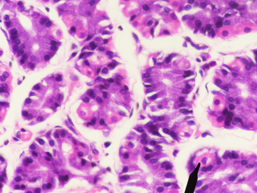 Author's own picture. A digital camera shot through a microscope; with a human parietal cell glass slide